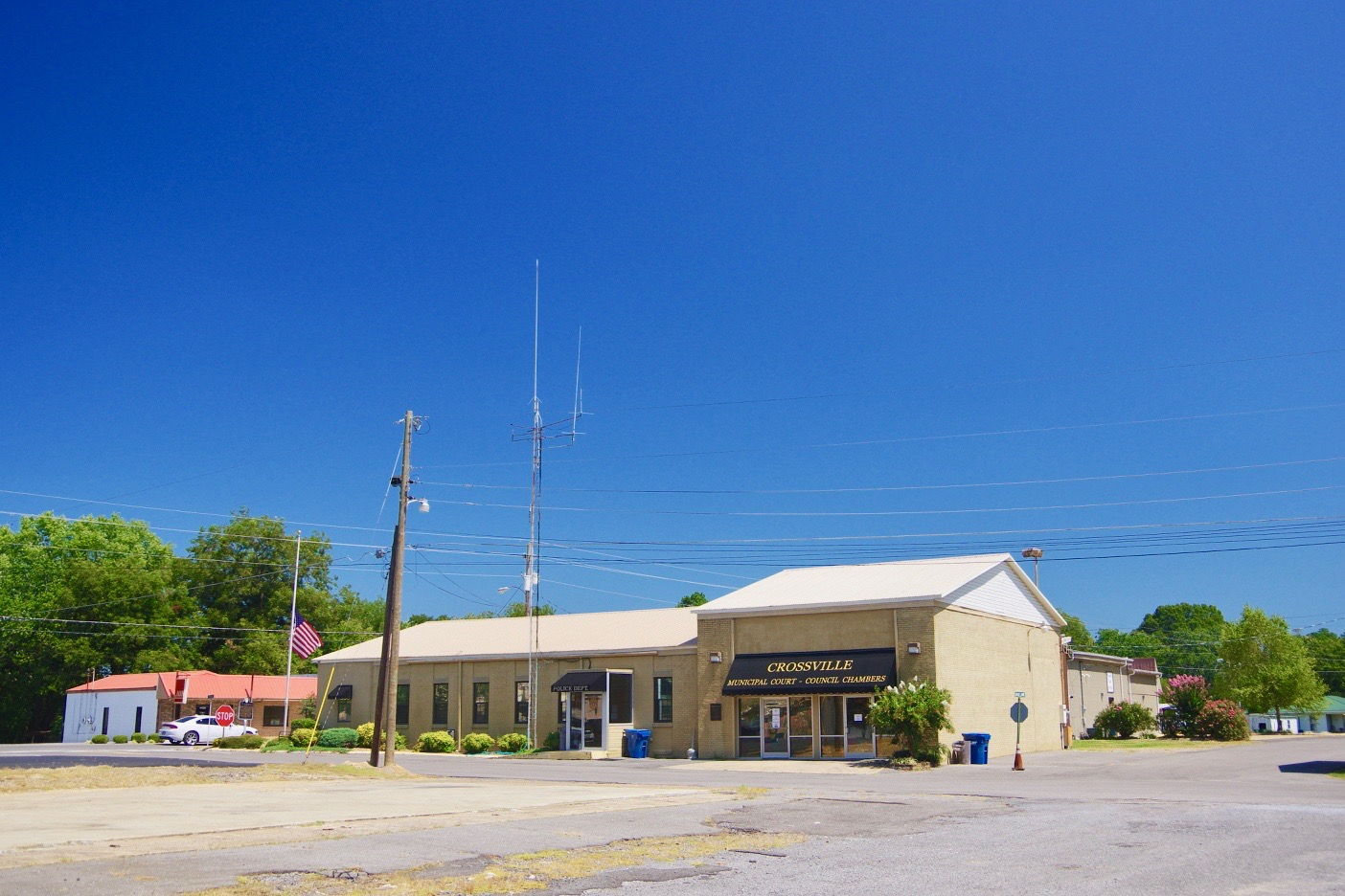 Town Hall and Municipal Court in Crossville, Alabama, United States.